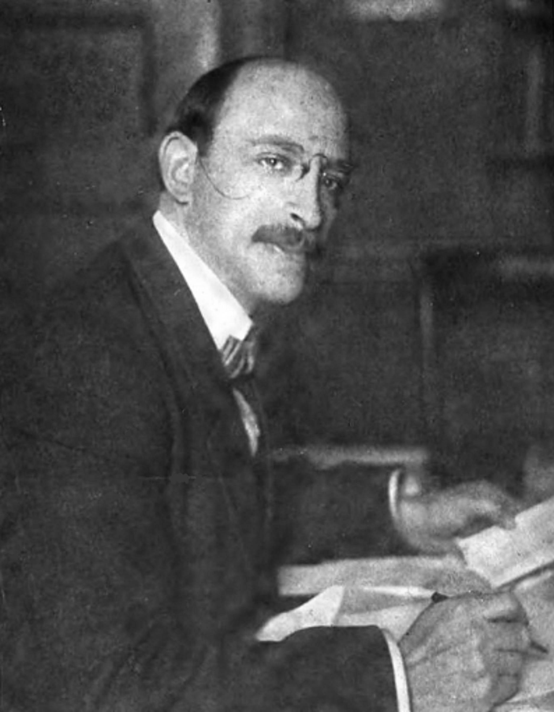 Alexander Berkman (November 21, 1870 – June 28, 1936) was an anarchist known for his political activism and writing.